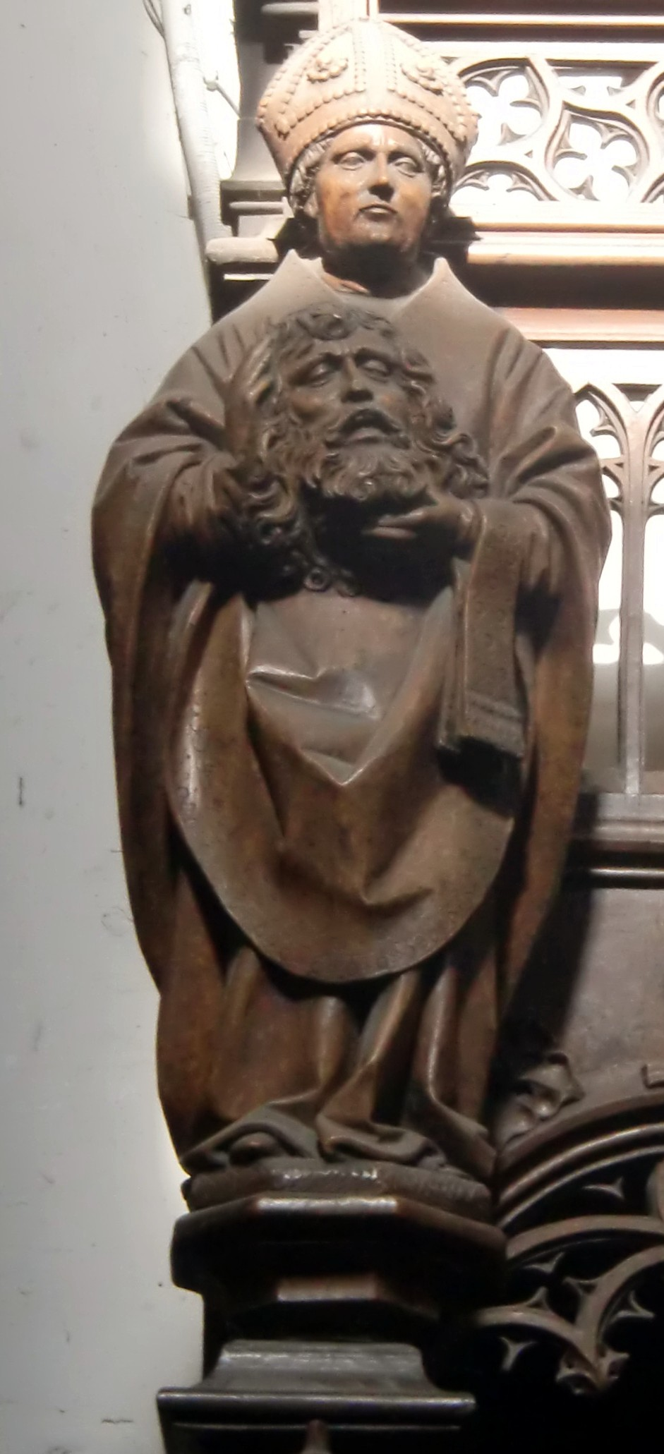 Aosta - Church of St. Orso, Choir stalls, Unknown master, wood, XV century, statue of San Grato